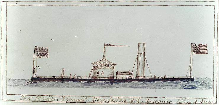 A slightly cropped image of a rough color sketch of the USS Squando at Charleston, South Carolina, in December 1865.